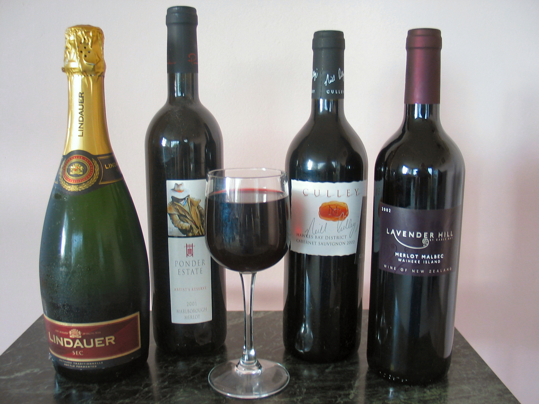 A selection of New Zealand wine. Taken by gadfium and released into the public domain